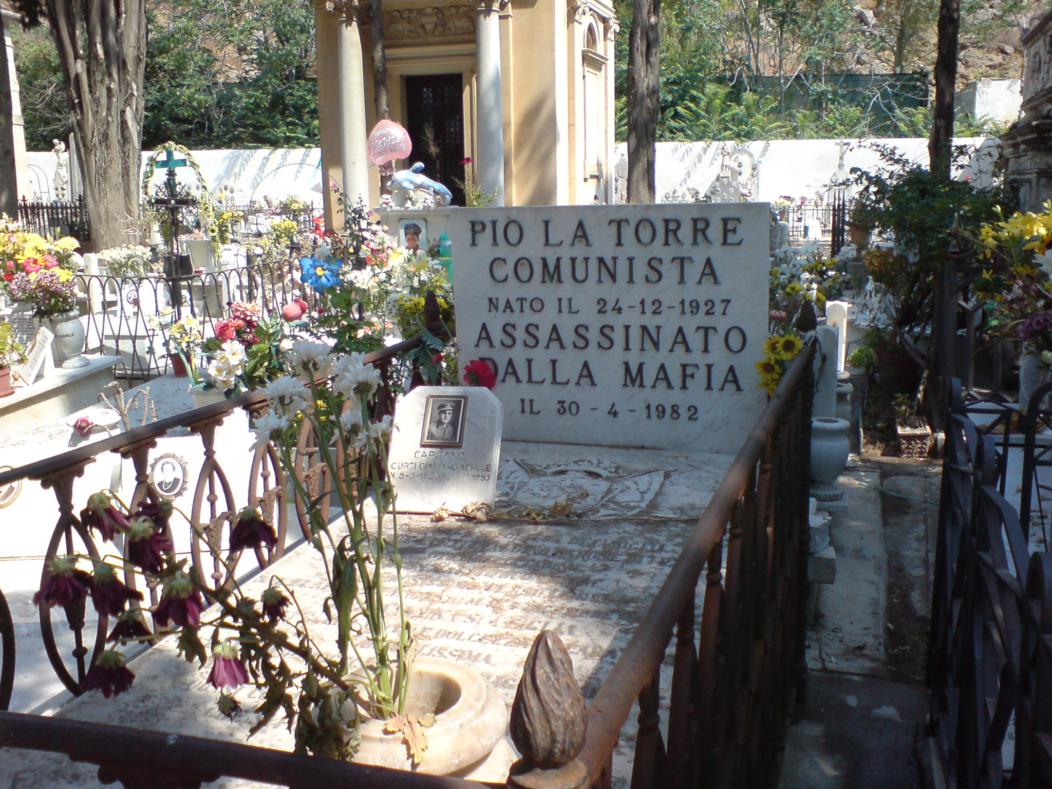 grave of pio la torre in palermo